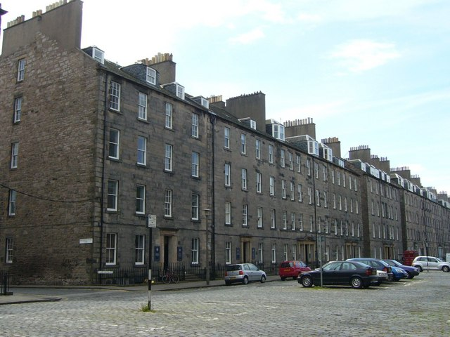 Buccleuch Place Built around 1770, Buccleuch Place belonged to the first phase of Edinburgh's southward expansion, partly in competition with the Georgian New Town expanding to the North. It had its own Dancing Assembly and attracted some notables like Francis Jeffrey, co-founder of The Edinburgh Review in 1802. The writer, Walter Scott, lived round the corner in the adjacent George Square. In the late 1950s and early 1960s, the University began buying up properties here for use as departmental offices and tutoring rooms.